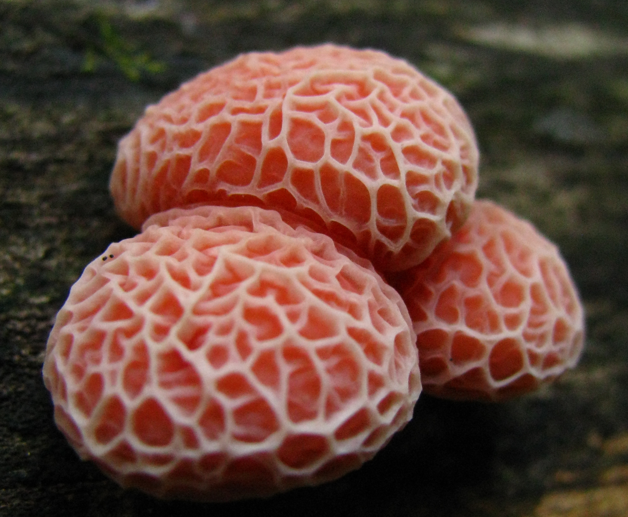 The "wrinkled peach" fungus, species Rhodotus palmatus (Bull.) Maire. Specimen photographed in Strouds Run State Park, Athens, Ohio, USA.